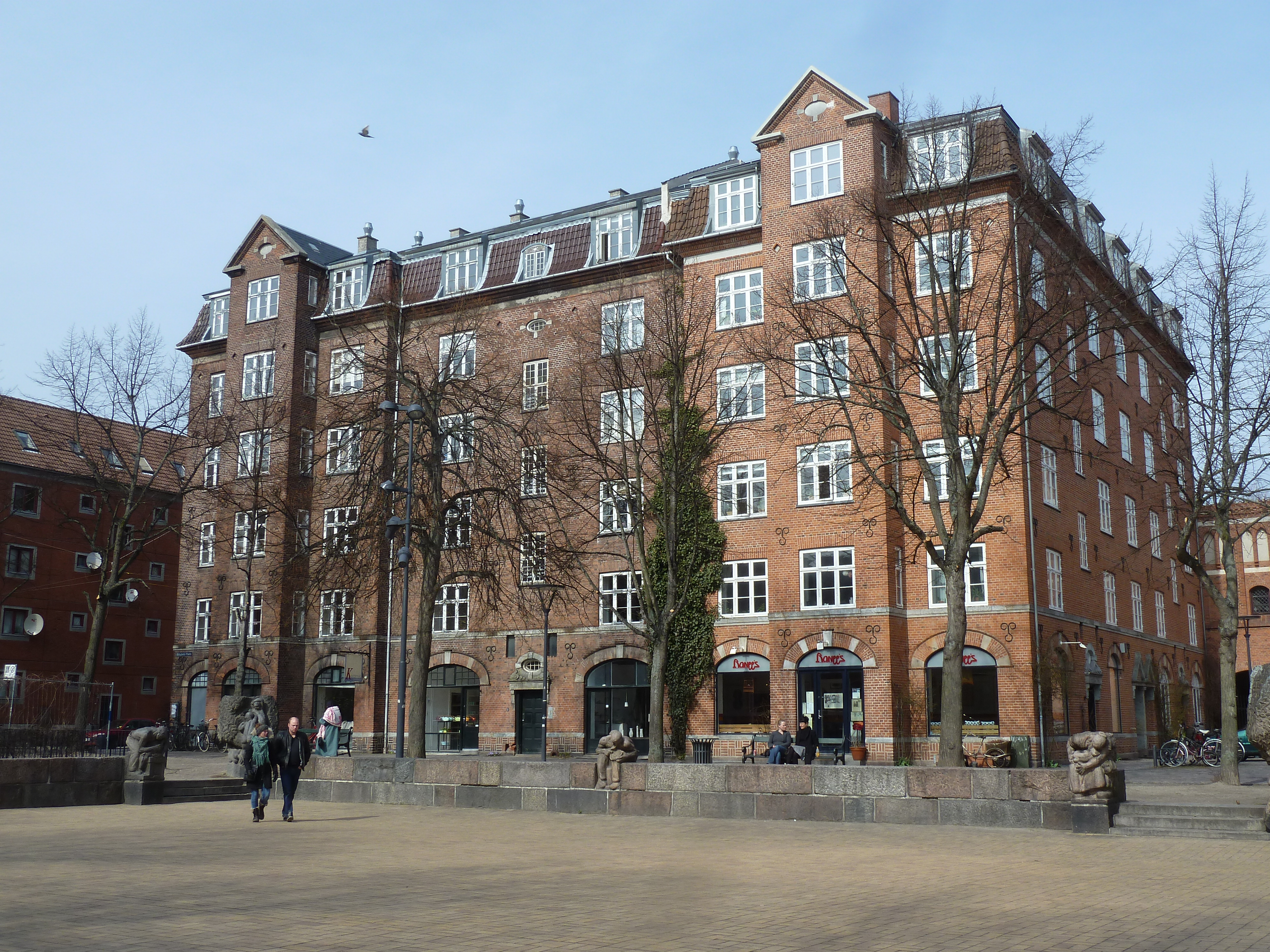 Building at Blågårds Plads in Copenhagen, Denmark. Blågårds Plads 12, built 1902, architect Aage Langeland-Mathiesen. Sculptures in front by Kai Nielsen.